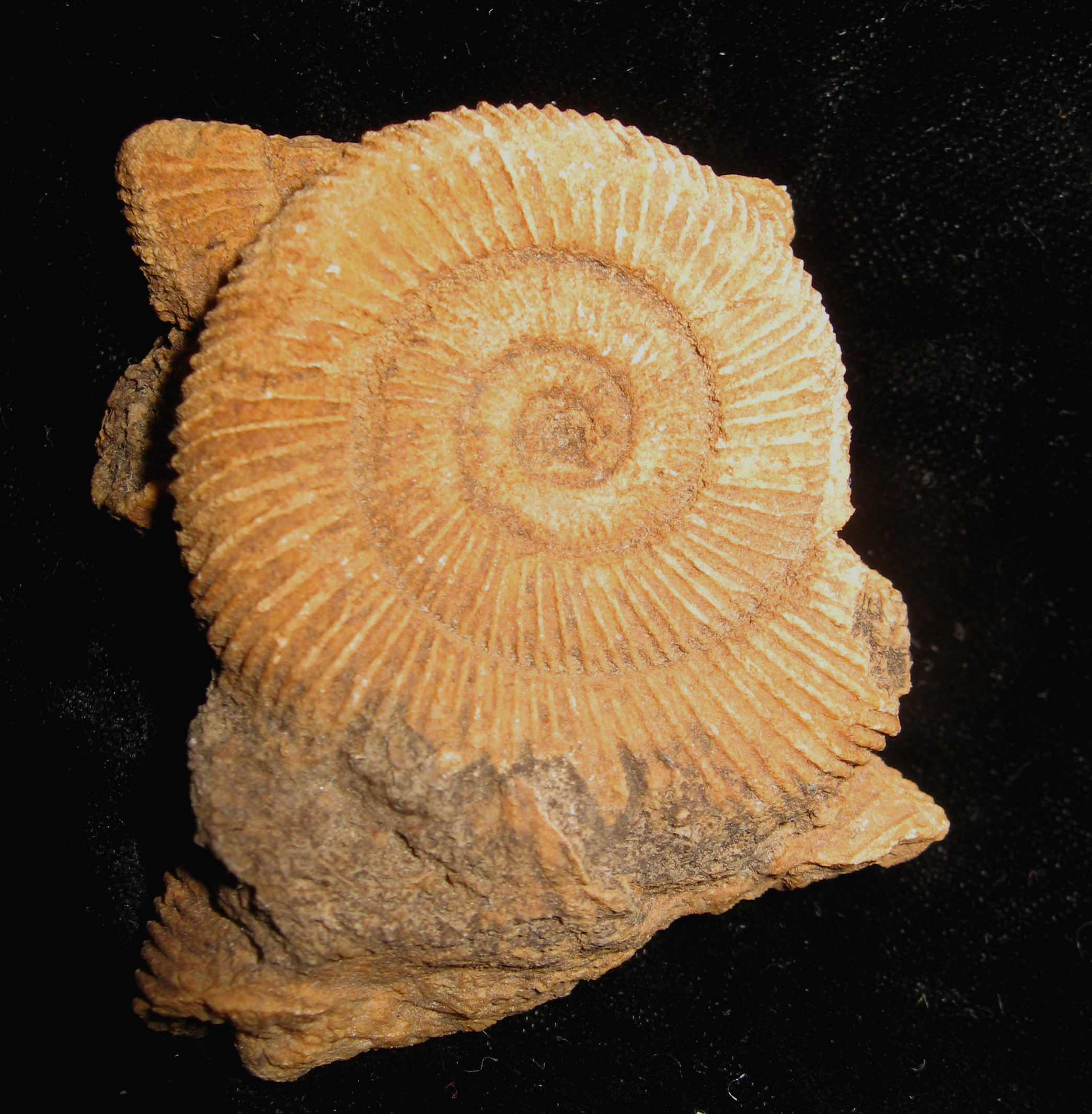 A nearly complete specimen of a Dactylioceras sp shell, 4cm in diameter. From the Jurassic of Germany